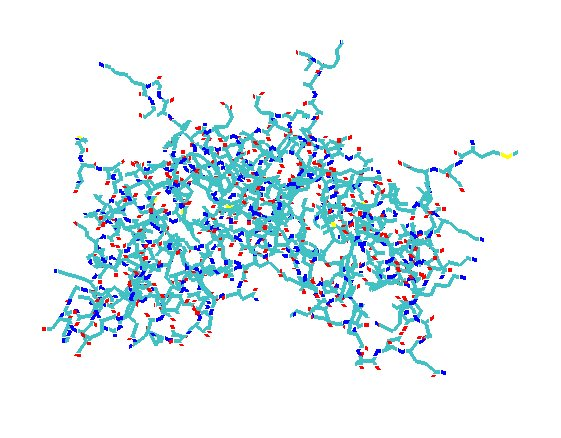 Coordinates taken from pdb code 1FQ9 Images rendered using vmd and GIMP